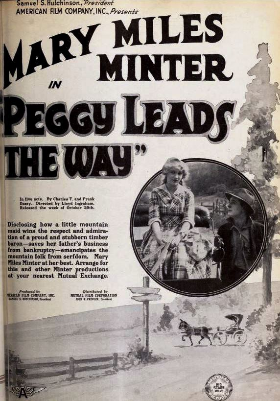 Advertisement for the American drama film Peggy Leads the Way (1917) with Mary Miles Minter and Allan Forrest, on page 3 of the November 3, 1917 Exhibitors Herald.